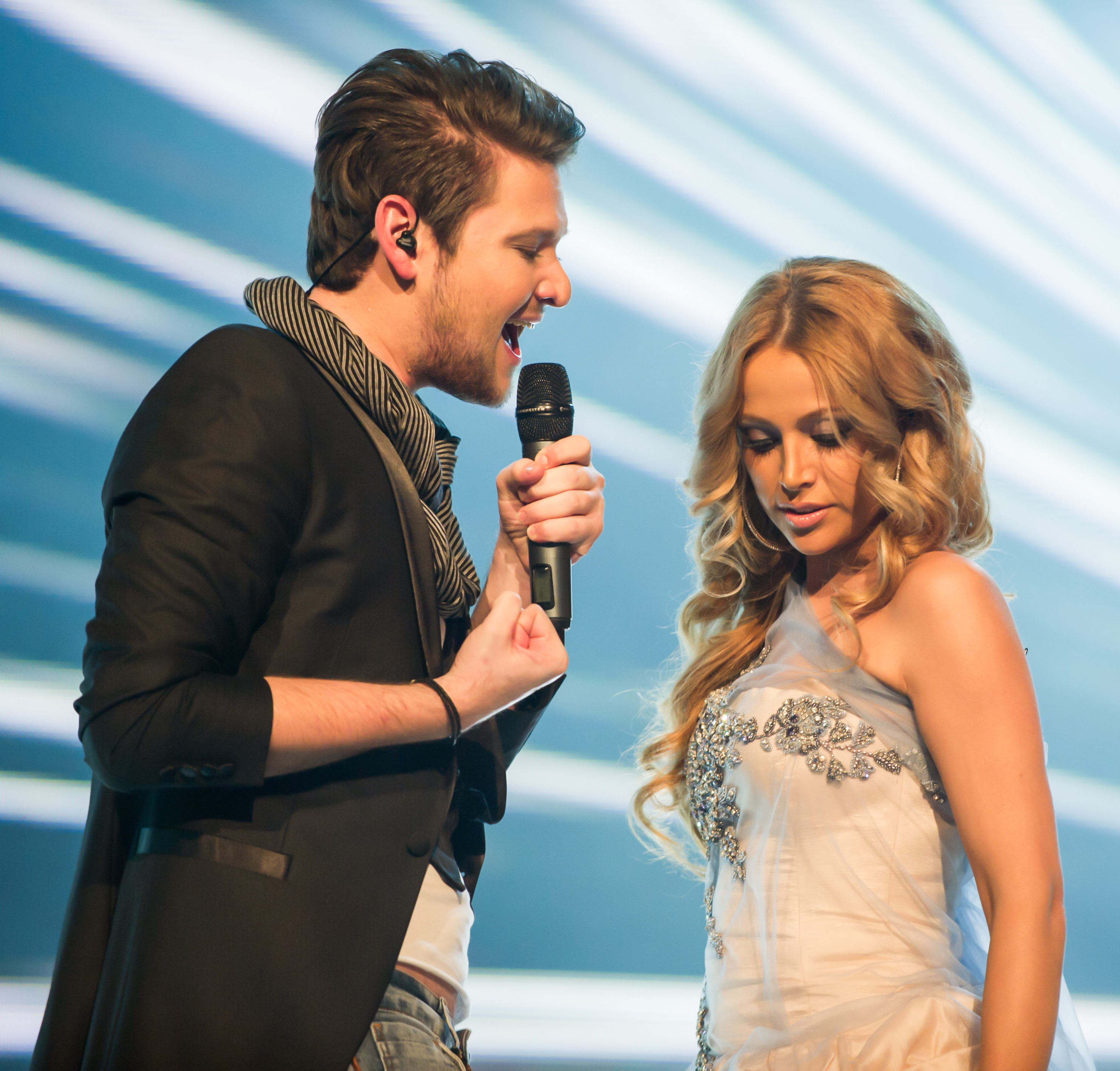 Eldar Gasimov and Nigar Jamal